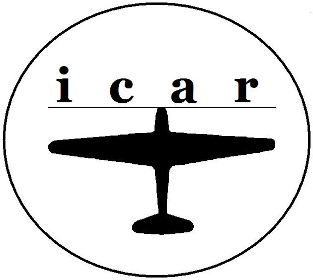 Sigla fabricii ICAR